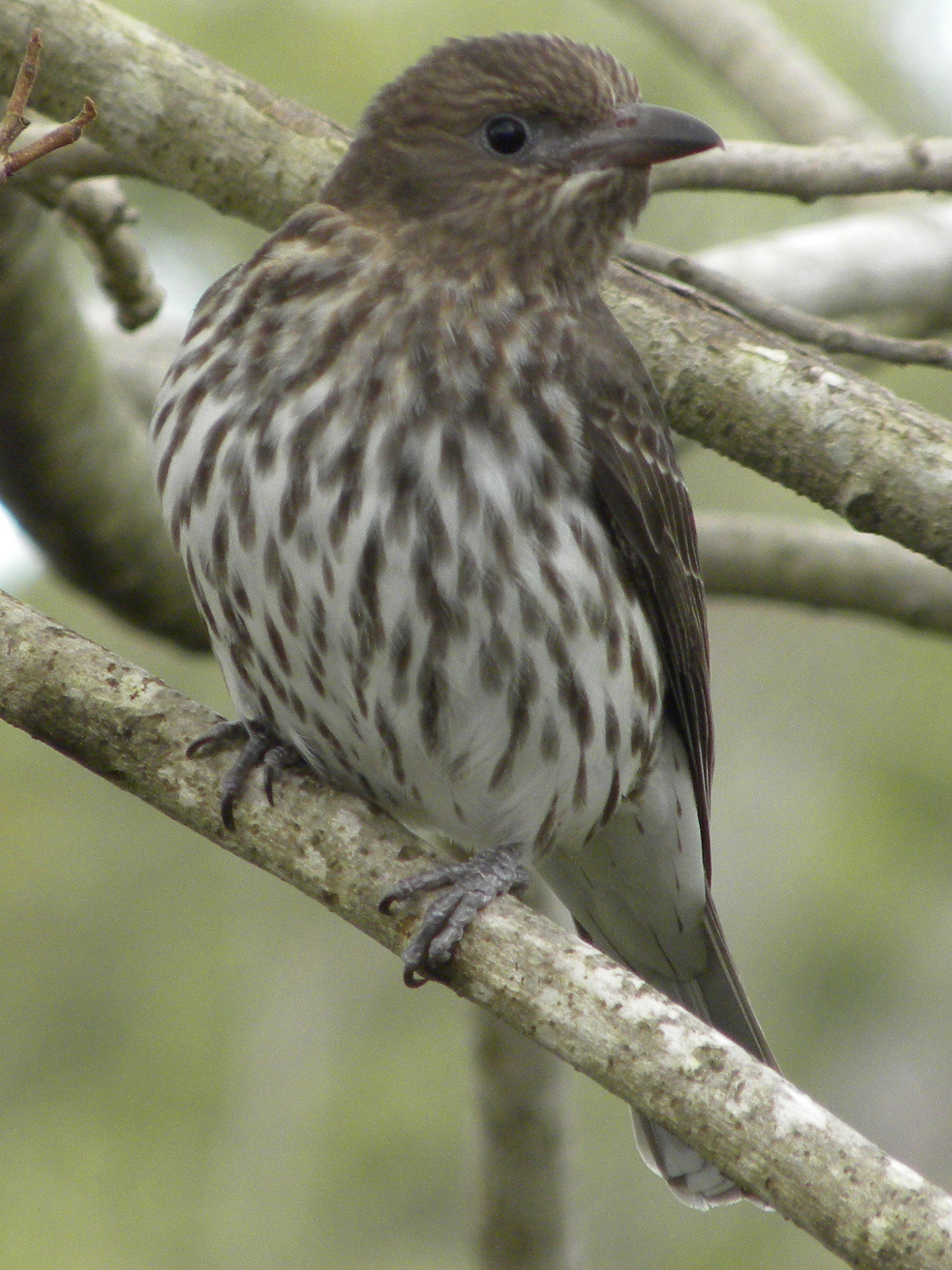 Australasian Figbird (Sphecotheres vieilloti)